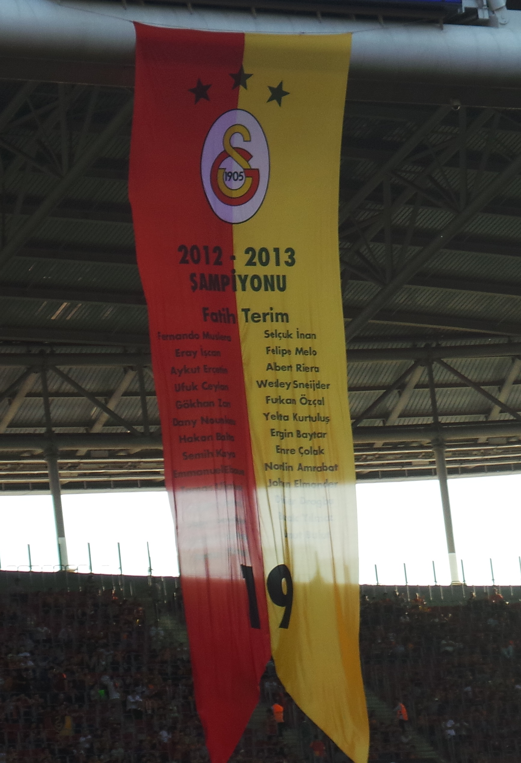 Galatasaray'ın 2012-13 sezonun kadrosu